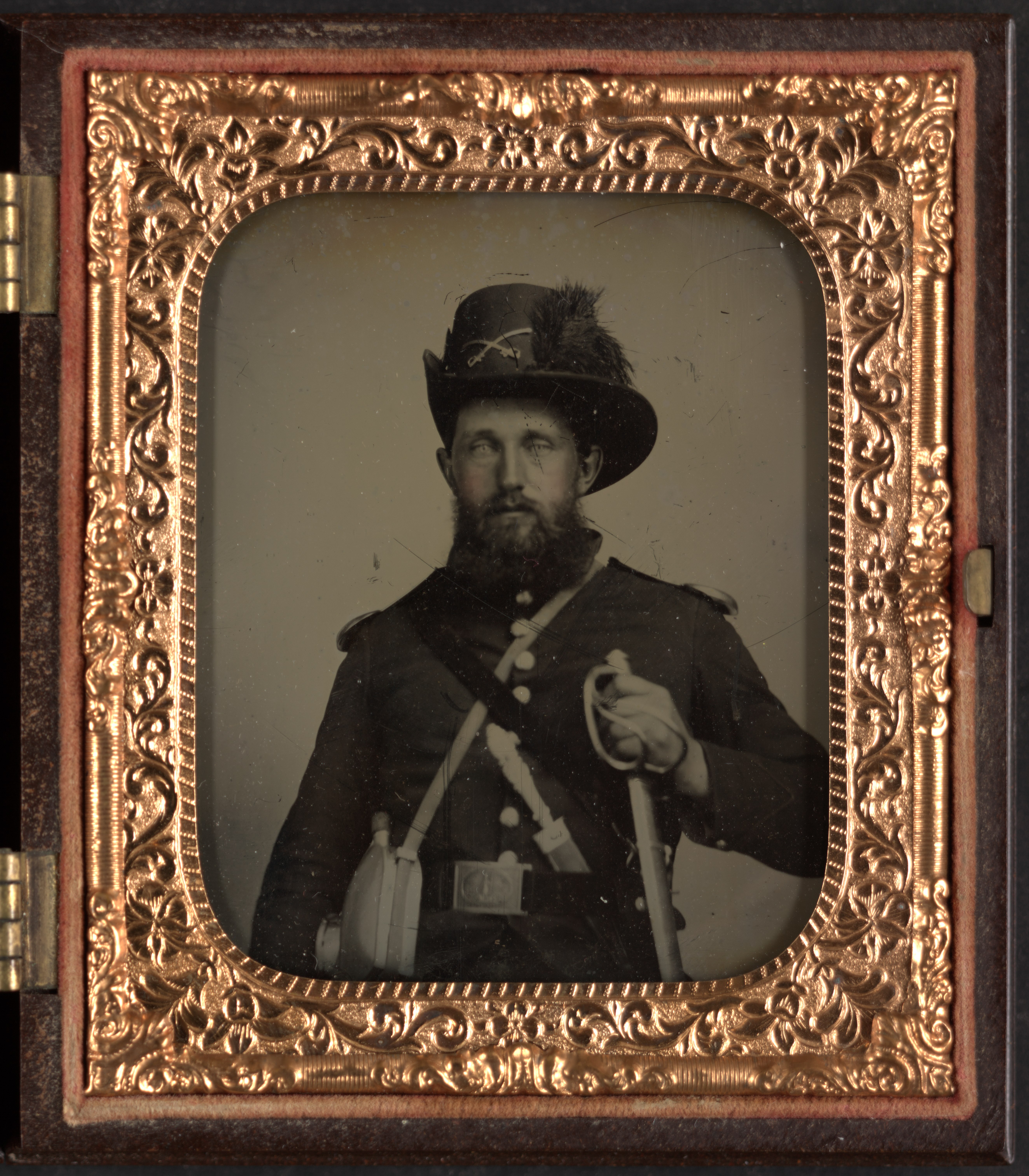 Title: Second Sergeant John Hamilton Ervine of 14th Virginia Cavalry Regiment, Co. I, 1st Virginia Cavalry Regiment, and Co. I, 4th Virginia Infantry Regiment in uniform with sword, knife, canteen, and Virginia sword belt plate Abstract/medium: 1 photograph : ambrotype ; plate 82 x 70 mm (sixth plate format), case 95 x 84 mm.